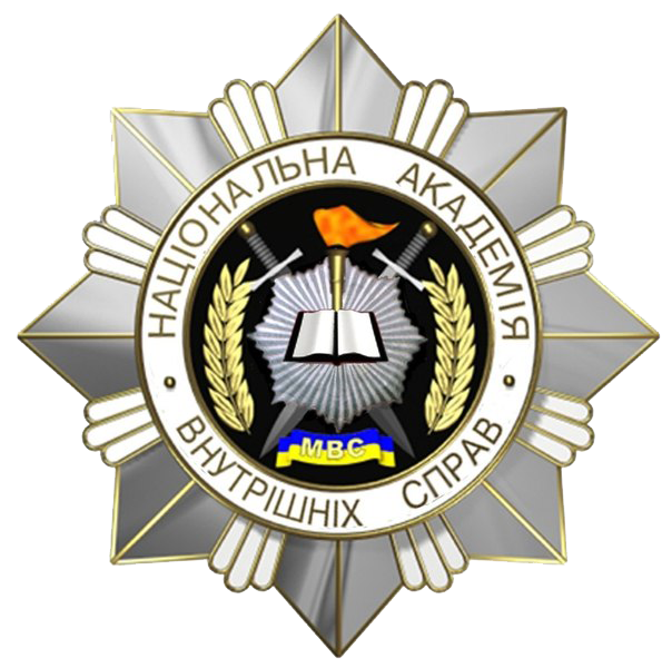 Logo of the National Academy of Internal Affairs of Ukraine